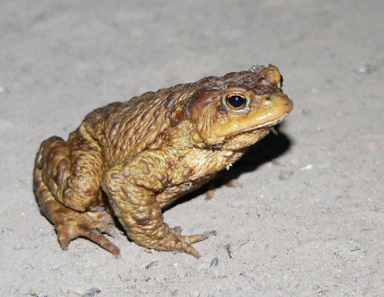 Common toad (Bufo bufo), Bieszczady, Poland